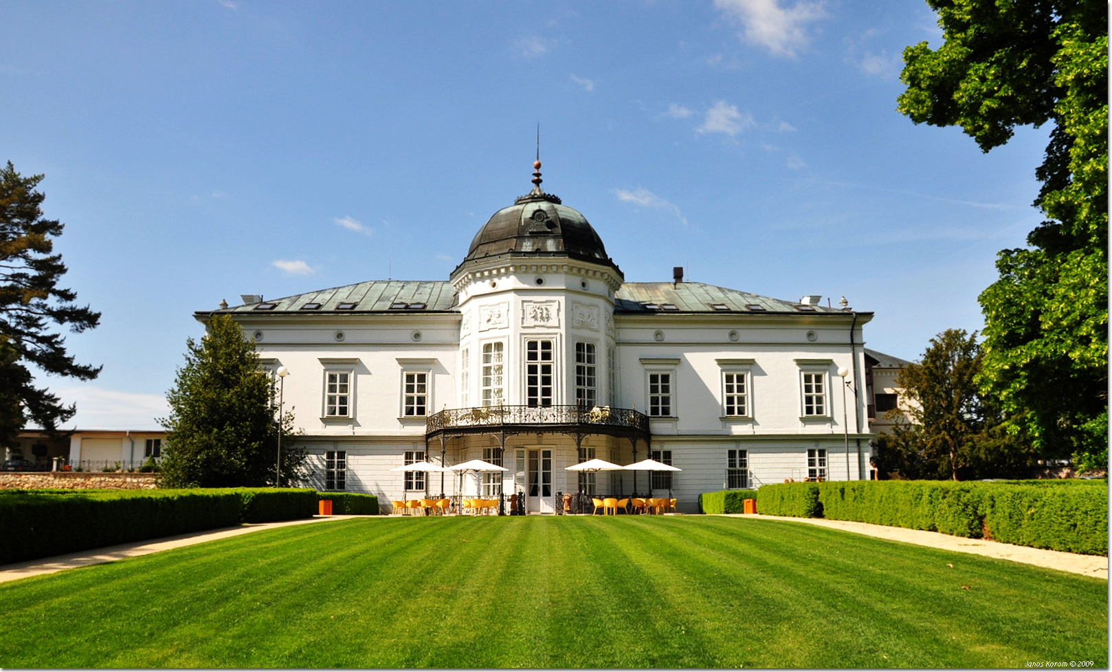 Castle. Beladice